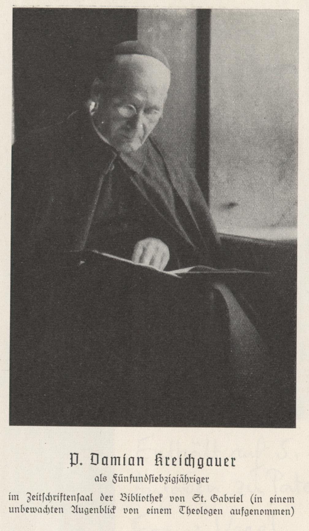 Father Damian Kreichgauer SVD